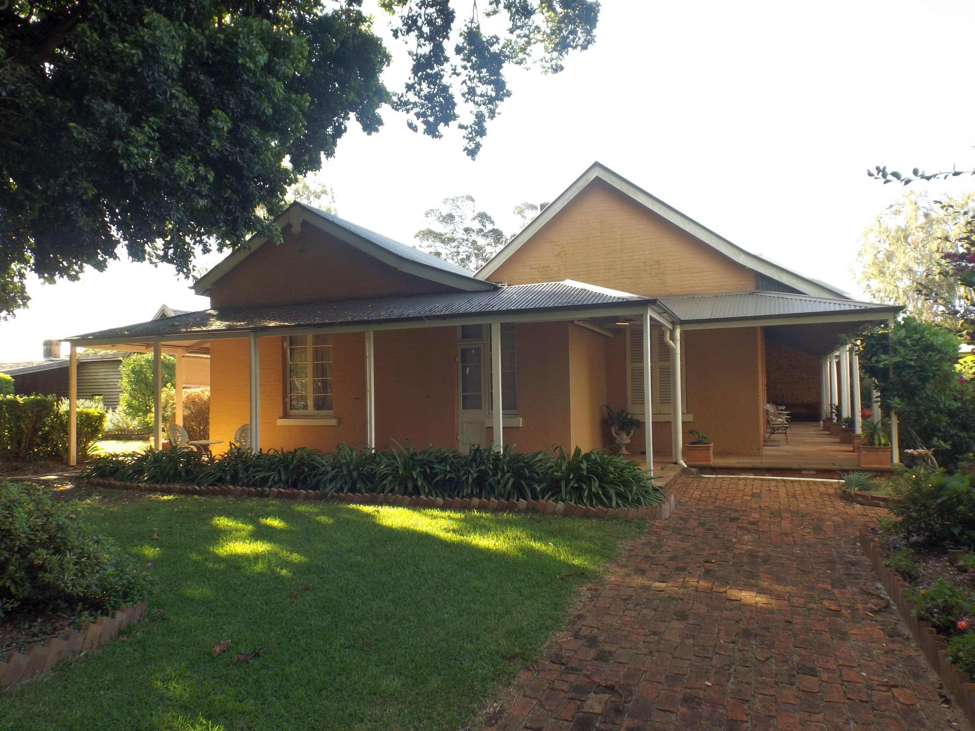 Photo of Ormiston House at Ormiston, City of Redlands, Queensland, Australia.